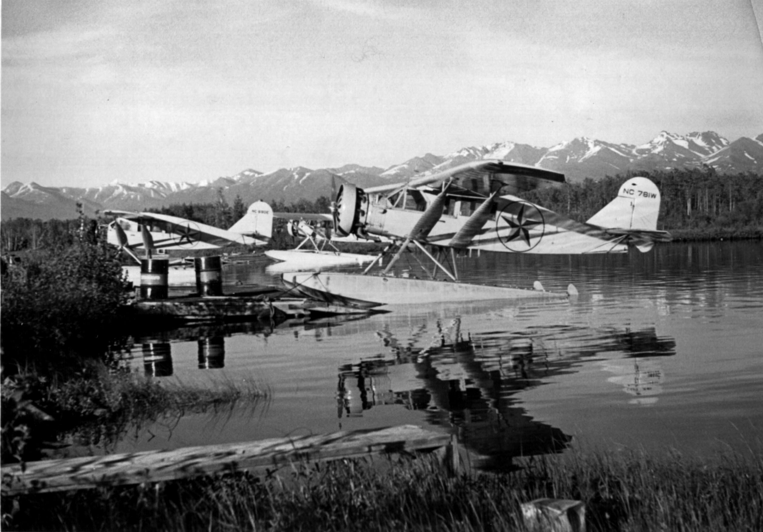 Star Airlines Bellancas on pontoons at Lake Spenard, Anchorage